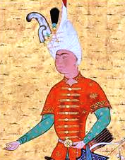 Painting of Shapur I in The Shahnama of Shah Tahmasp